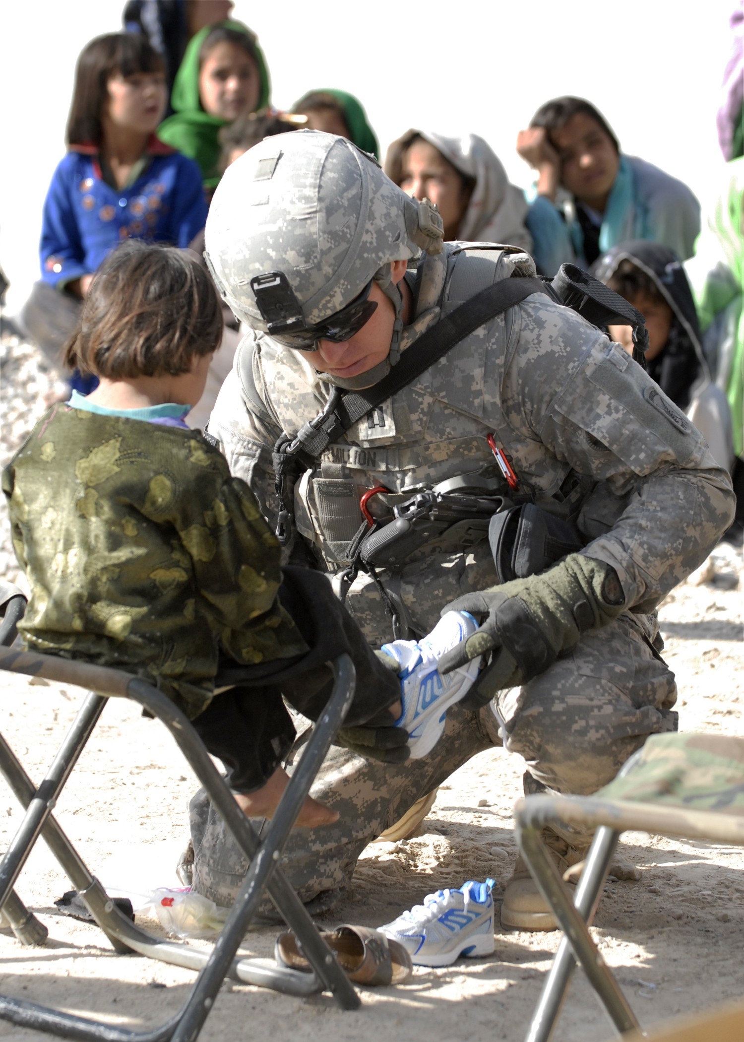 Air Force Capt. Richard Vermillion, a Civil Engineer with Task Force Zabul's Provincial Reconstruction Team, fits a new shoe to a local Afghan child at a military shoe drive for orphaned school children. The shoe drive gave shoes to over 200 Afghan students of Bibi Khali girls school in the southern Afghanistan. (U.S. Air Force Photo by Staff Sgt. David Flaherty)